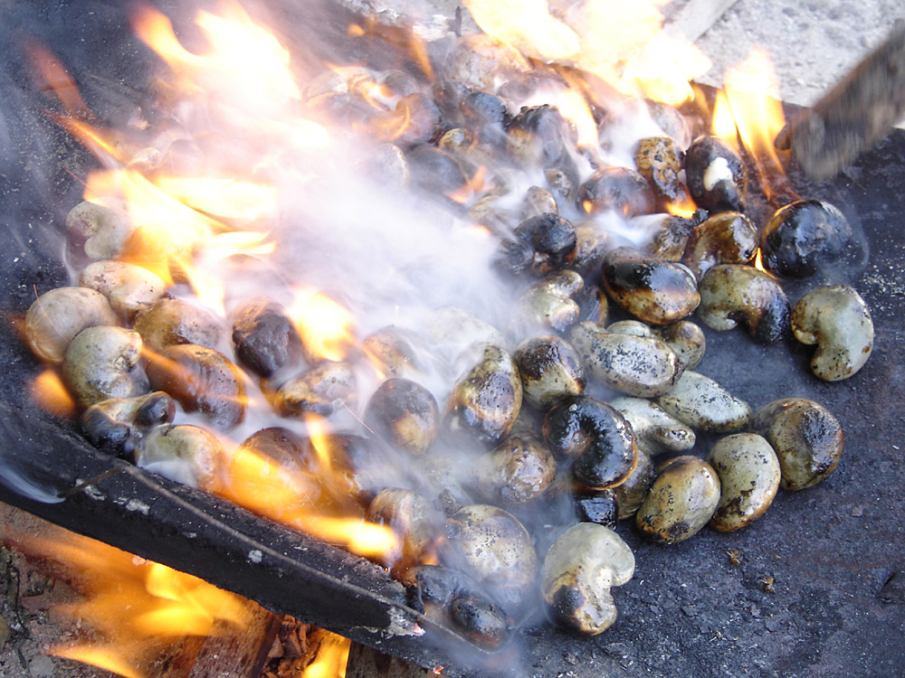 Traditional cashew nut toasting process, phase 3. Town of Prainha near Fortaleza, Ceará, Brazil.